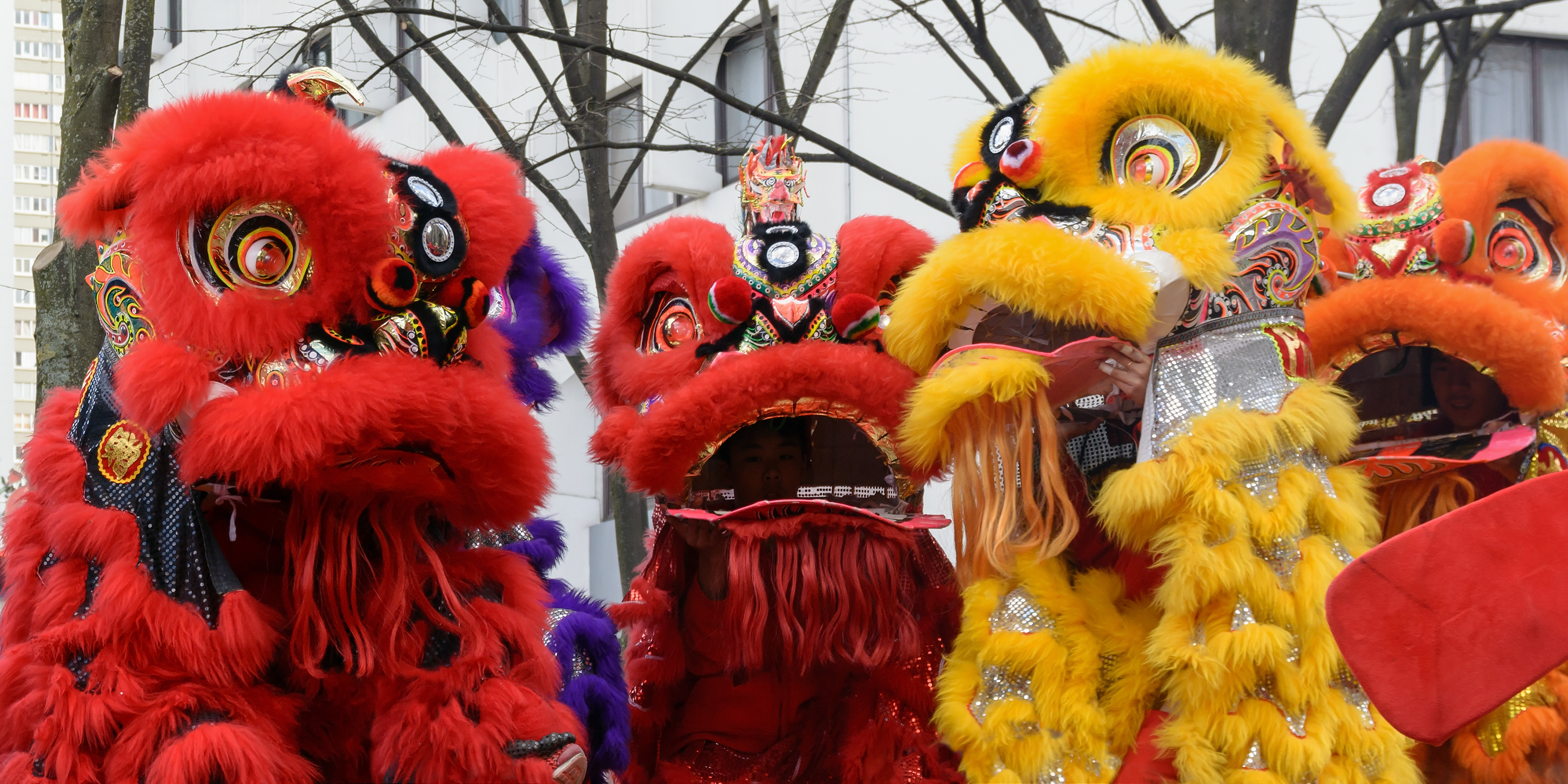 Lion dance during Chinese New Year 2015 in the 13th arrondissement of Paris